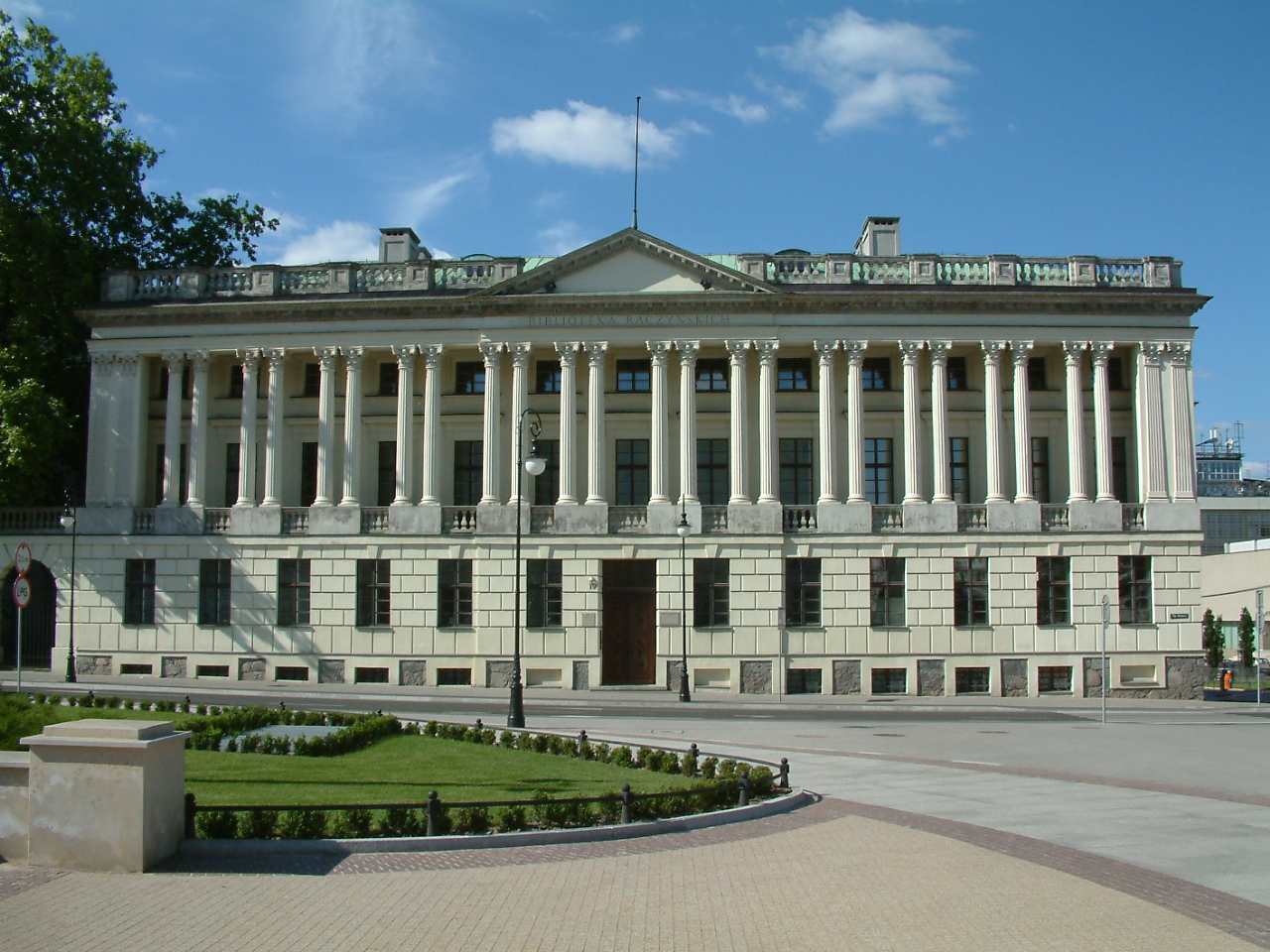 Facade of Library of the Raczyński family in Poznań, Poland